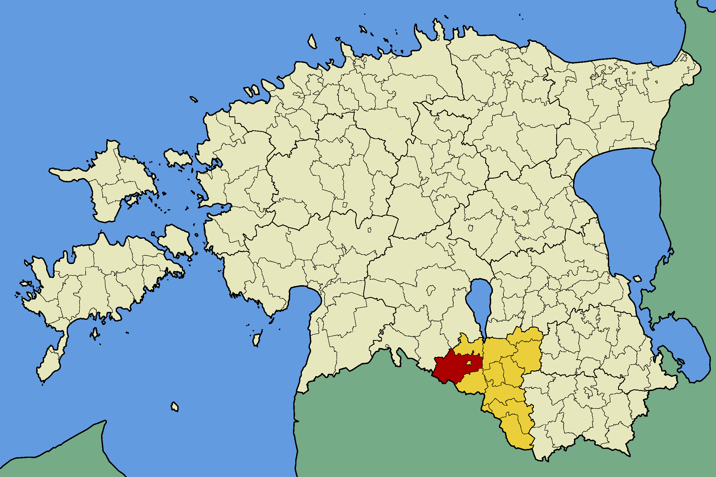 Map of Estonia with borders of municipalities (parishes). Valga county and Helme municipality emphasized.